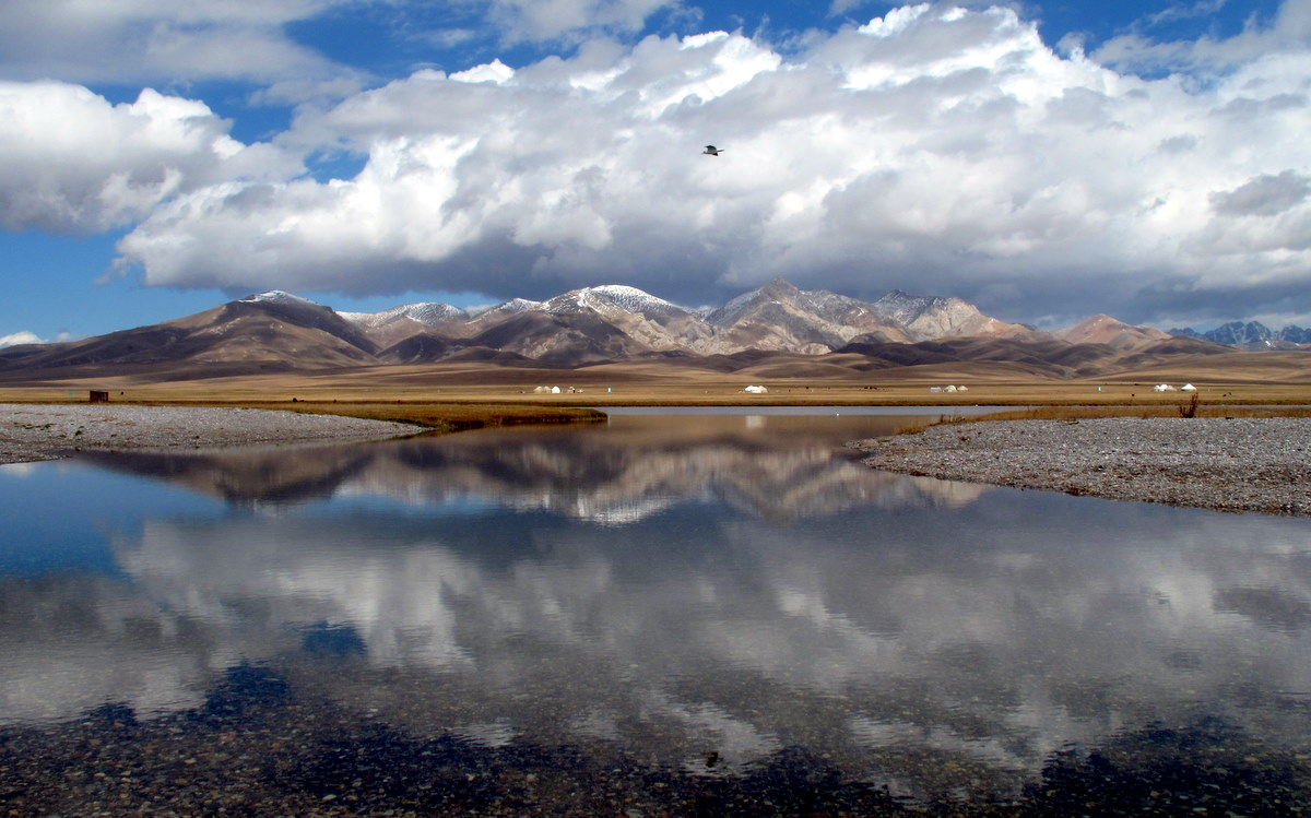 Surprise, this area also doubles as an ecological reserve.